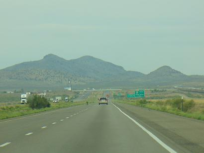 I-10 Exit 5 in New Mexico